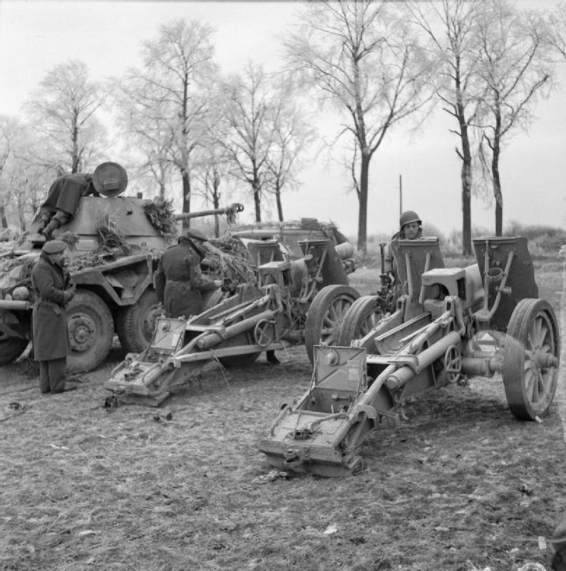 The British Army in North-west Europe 1944-45 British and American troops inspect captured German guns and a Puma armoured car, near Foy Notre Dame, 29 December 1944.